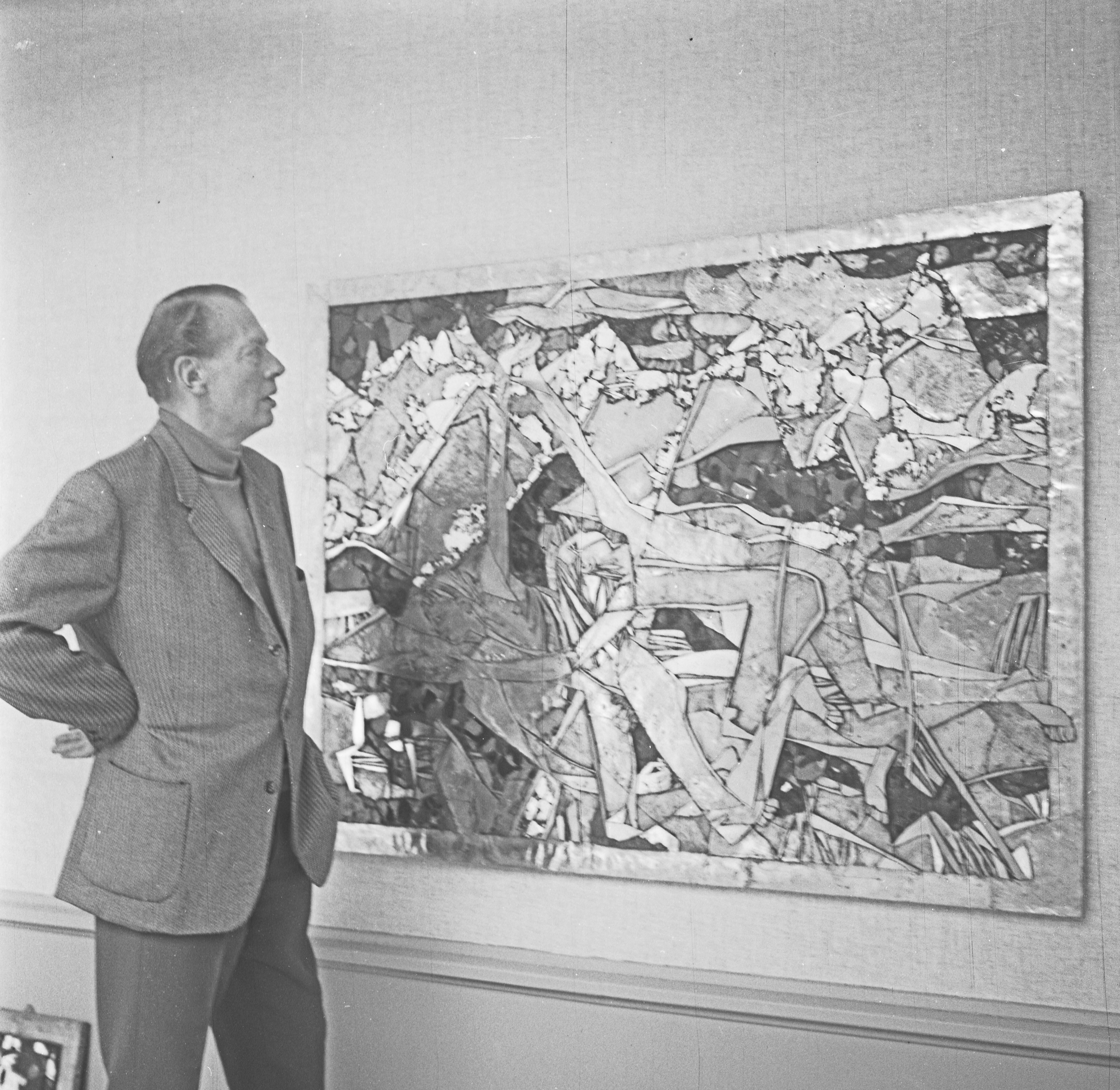 Format: Negativ 120 film Dato / Date: 1969 Fotograf / Photographer: Eirik Sundvor (1902 - 1992) Sted / Place: Bergen, Hordaland Store norske leksikon: Sigurd Winge (1909 - 1970) Wikipedia: Sigurd Winge (1909 - 1970) Eier / Owner Institution: Trondheim byarkiv, The Municipal Archives of Trondheim Arkivreferanse / Archive reference: Tor.H43.Bxx.F14455